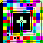 Program in the Piet programming language, printing "Hello, World!" (with trace)